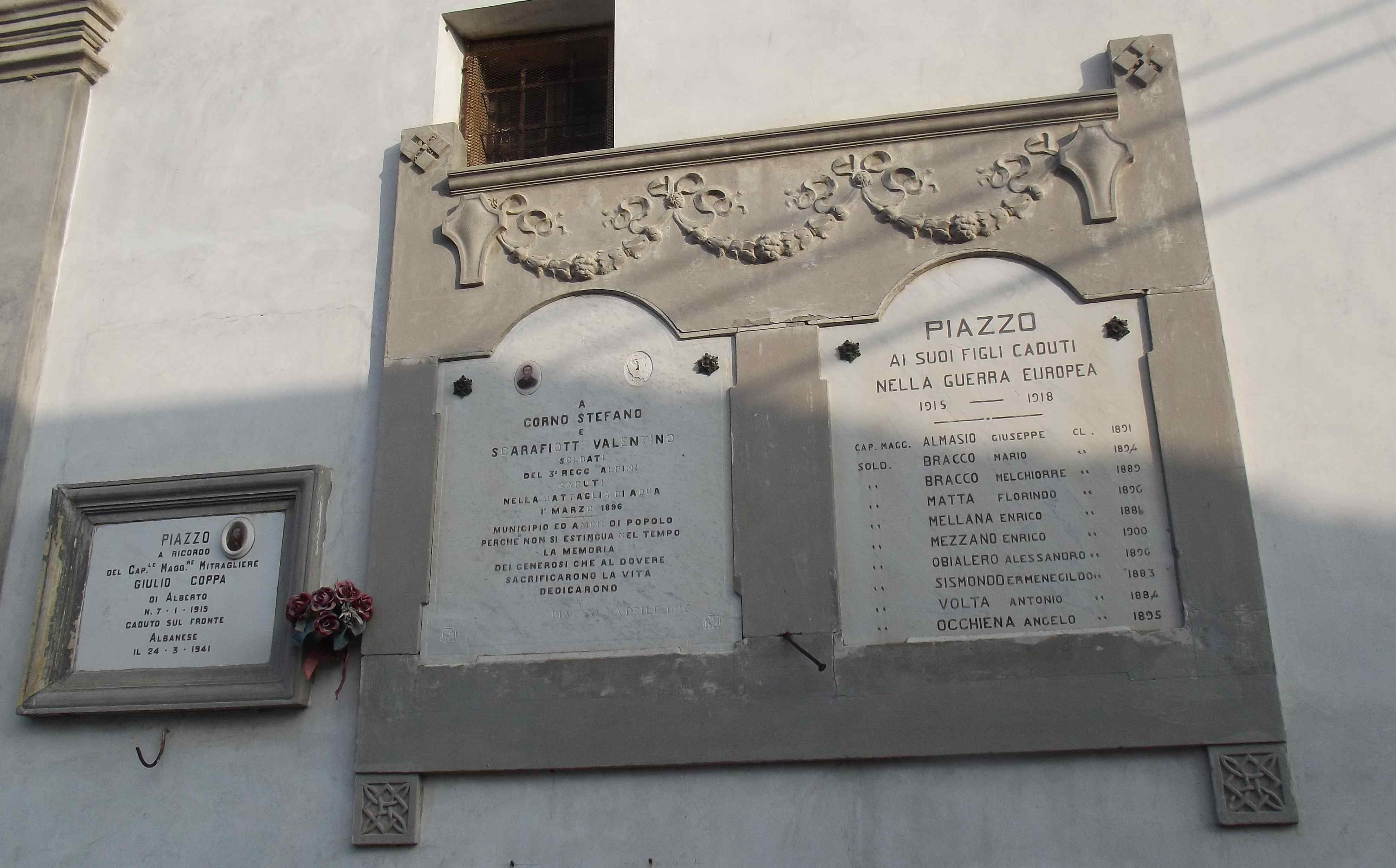 Piazzo (Lauriano, TO, Italy): memorial tablet to war casualties